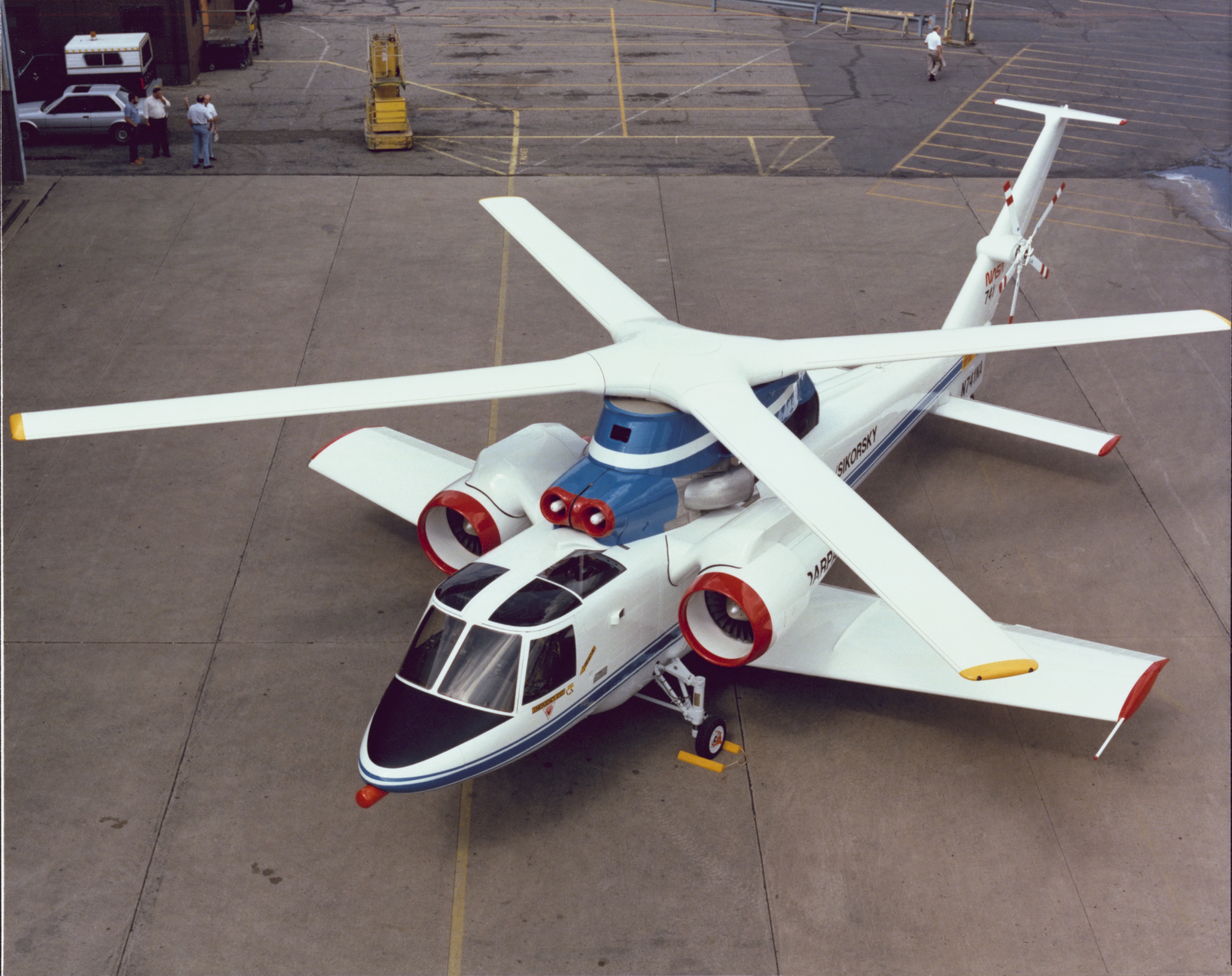 Sikorsky X-wing NASA photo #AC86-0607-2 cropped and scaled